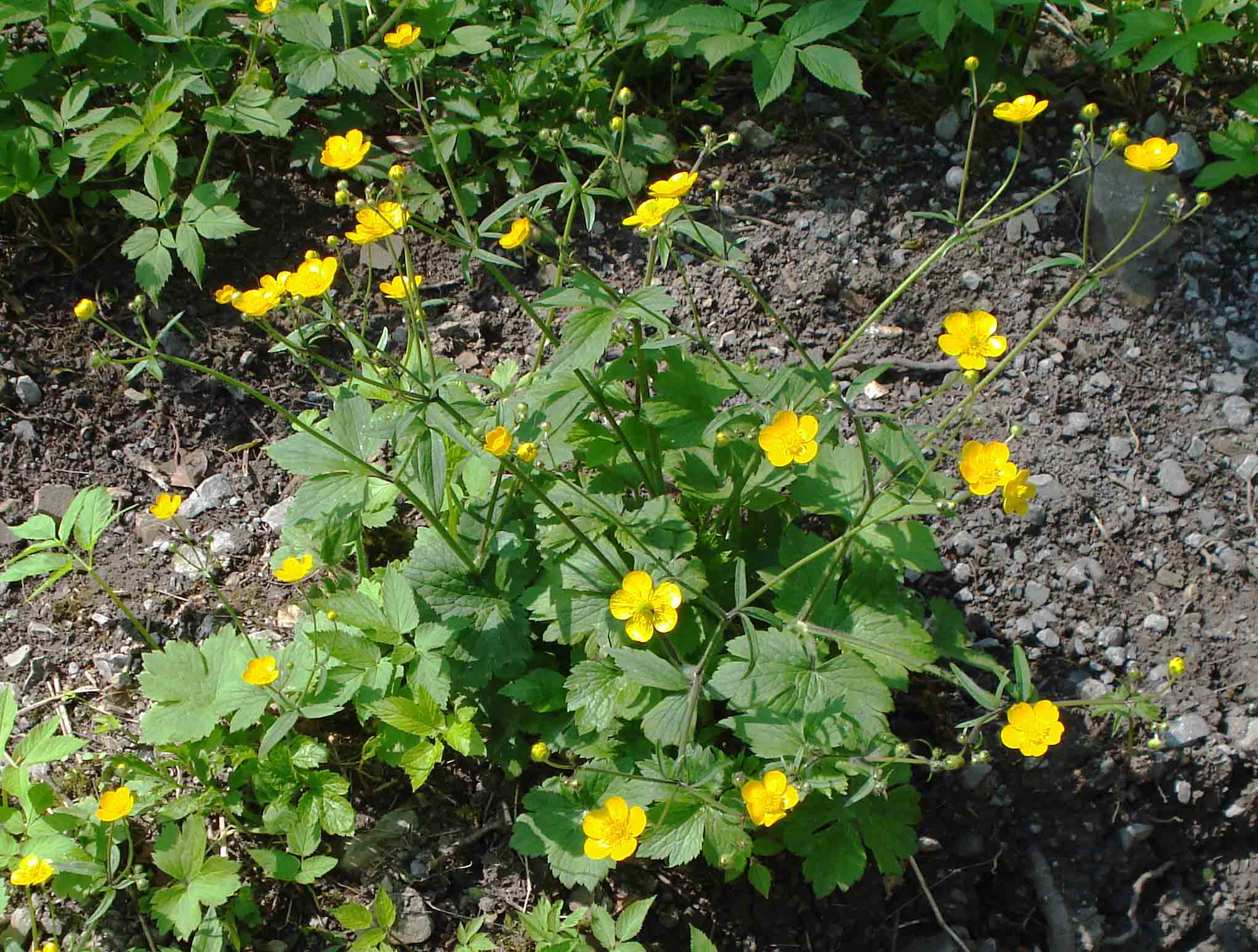 Ranunculus lanuginosus (Unterfranken, Germany)